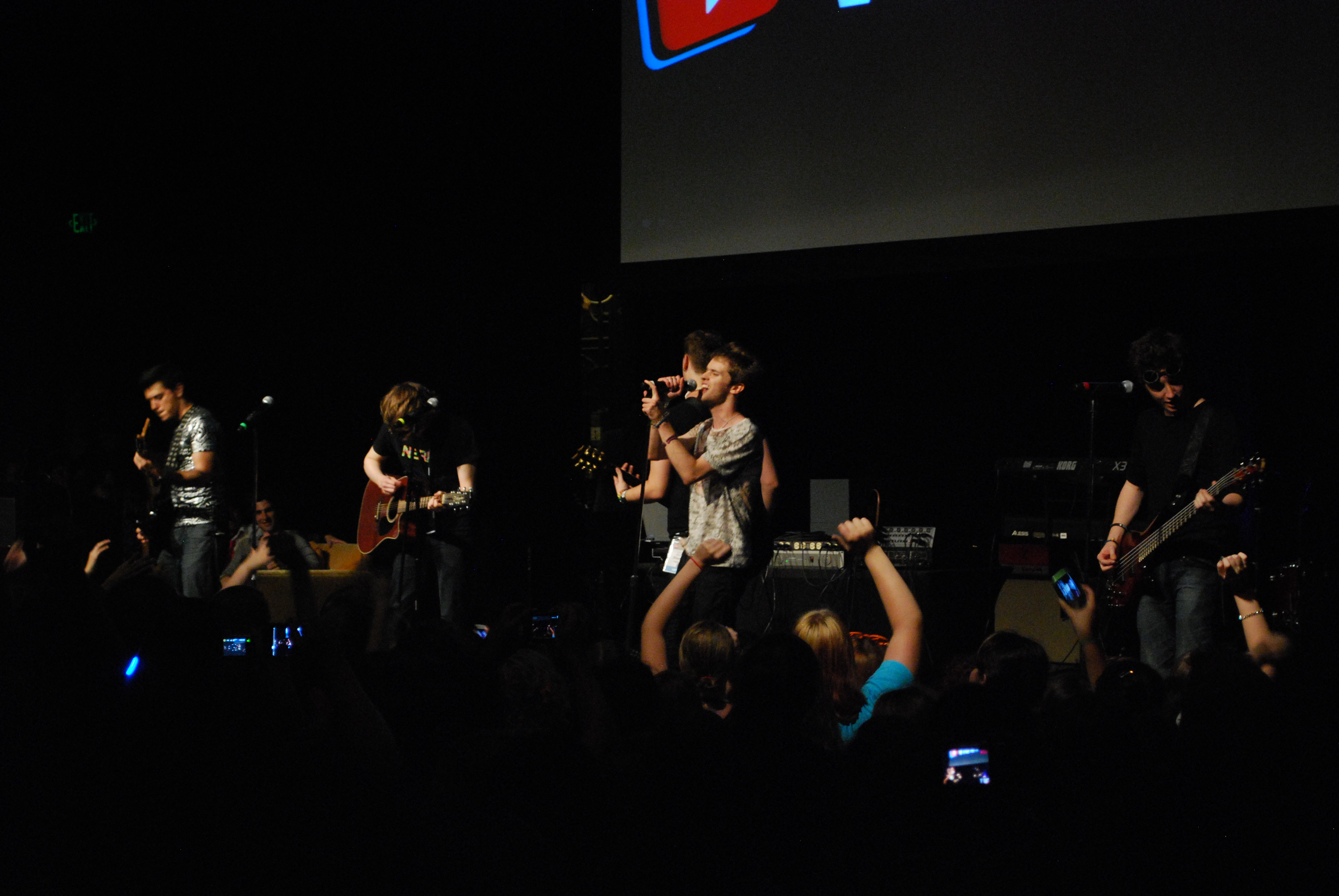 Chameleon Circuit performing at VidCon 2011.